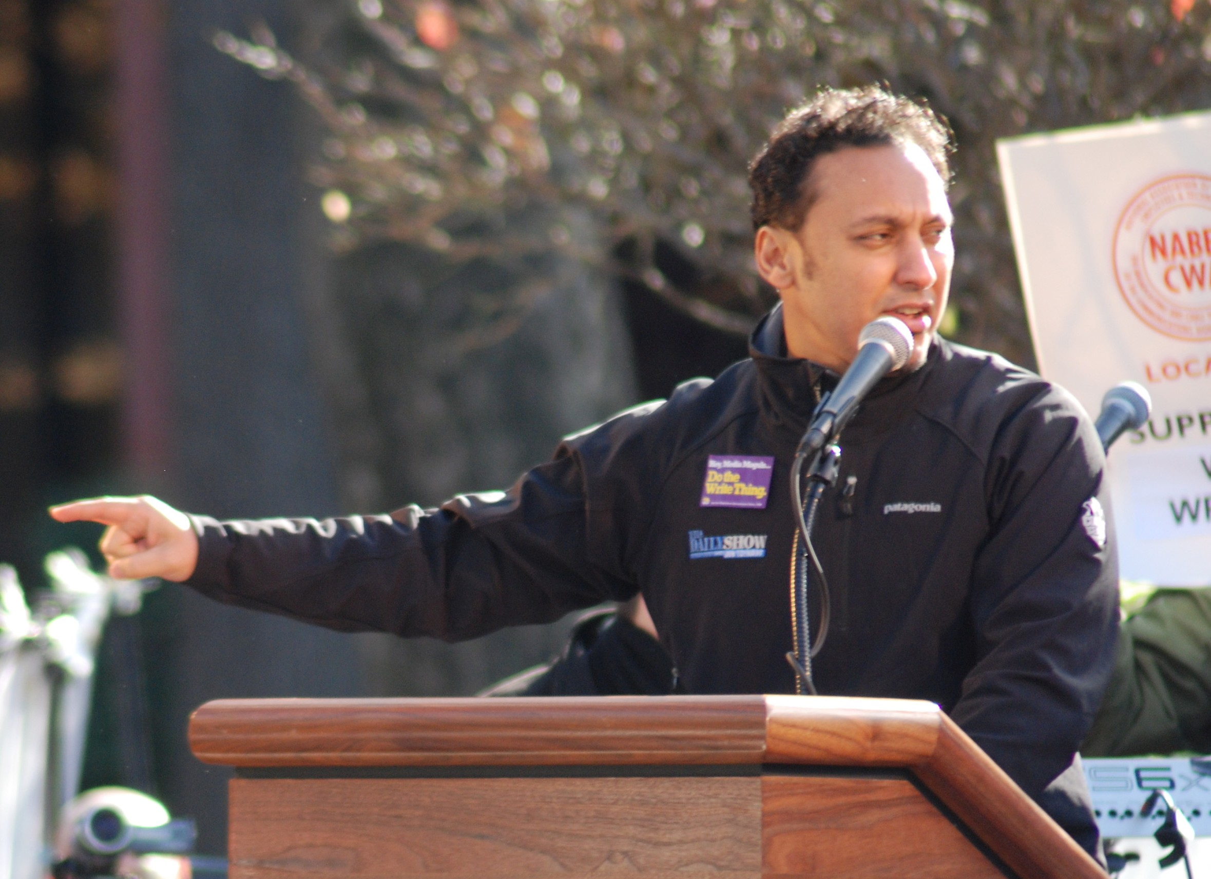 Photo by Amber Baldet